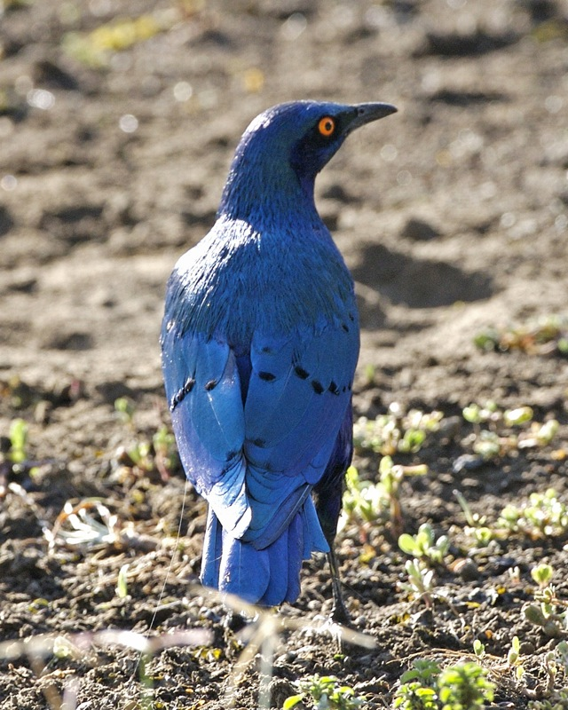 Greater Blue-eared Glossy-Starling (Lamprotornis chalybaeus). Lake Nakuru, Kenya, August 31, 2008.